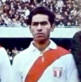 Peru national football team moments prior to a practice match against the Mexico national football team in 1968. Friendly match ahead of their participation in the 1970 FIFA World Cup, featuring players from the team that qualified them to the aforementioned tournament.